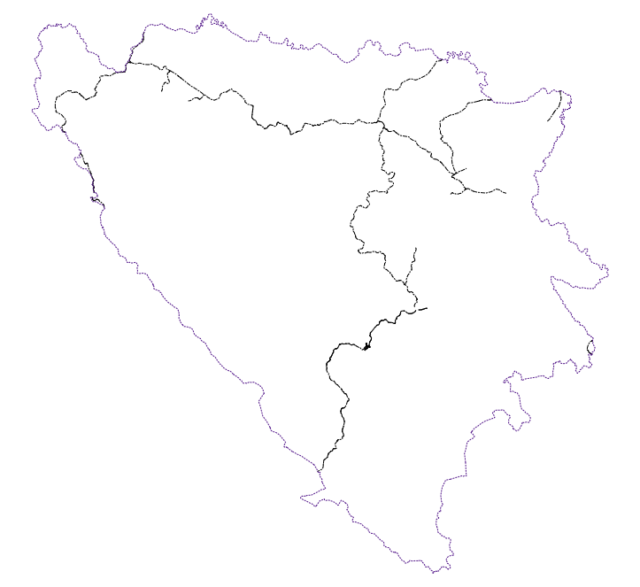 Openstreetmap data /